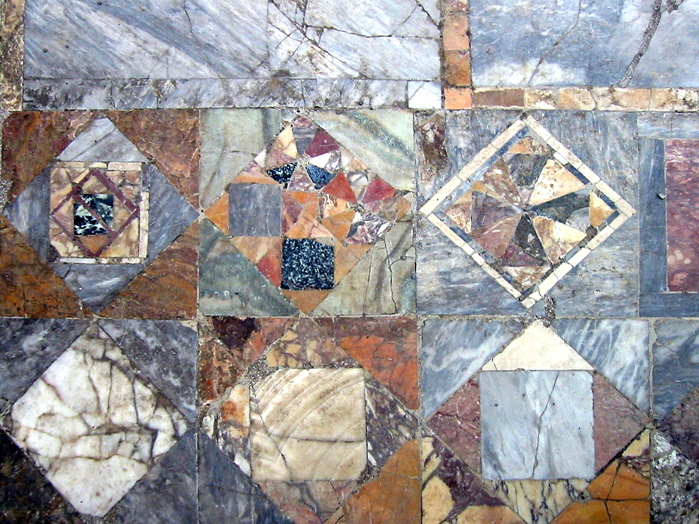 Opus sectile (marble floor inlay) from a house (probably the House of the Stags) in Herculaneum in Italy.